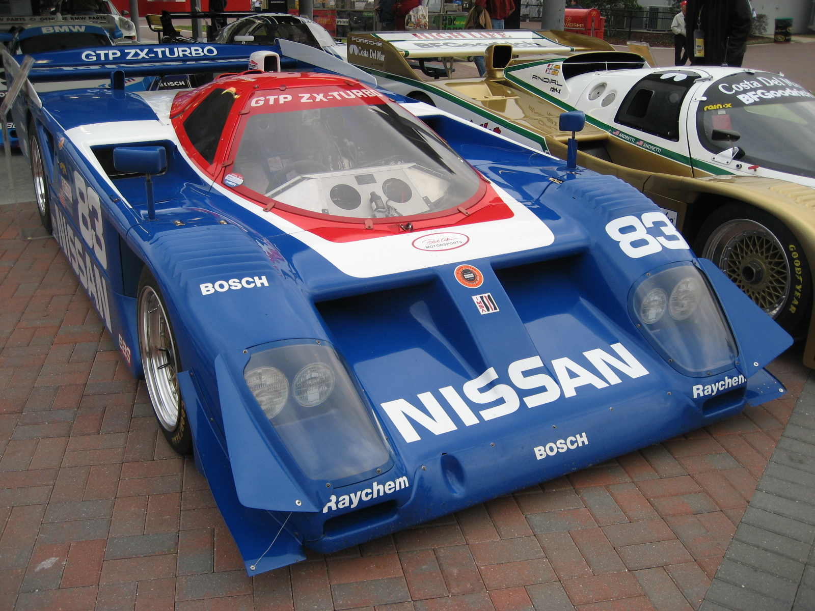 Nissan GTP ZX-Turbo chassis ZXT-8805.